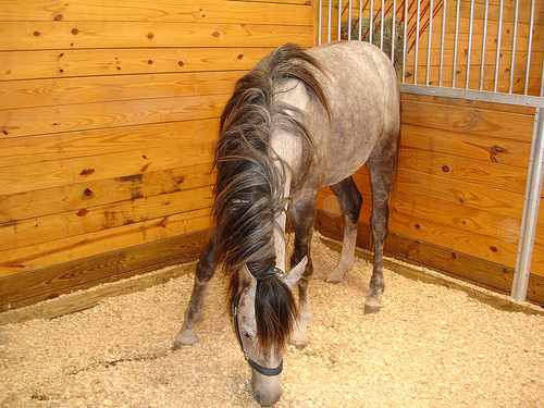 A horse inside a box stall, checking out his new digs